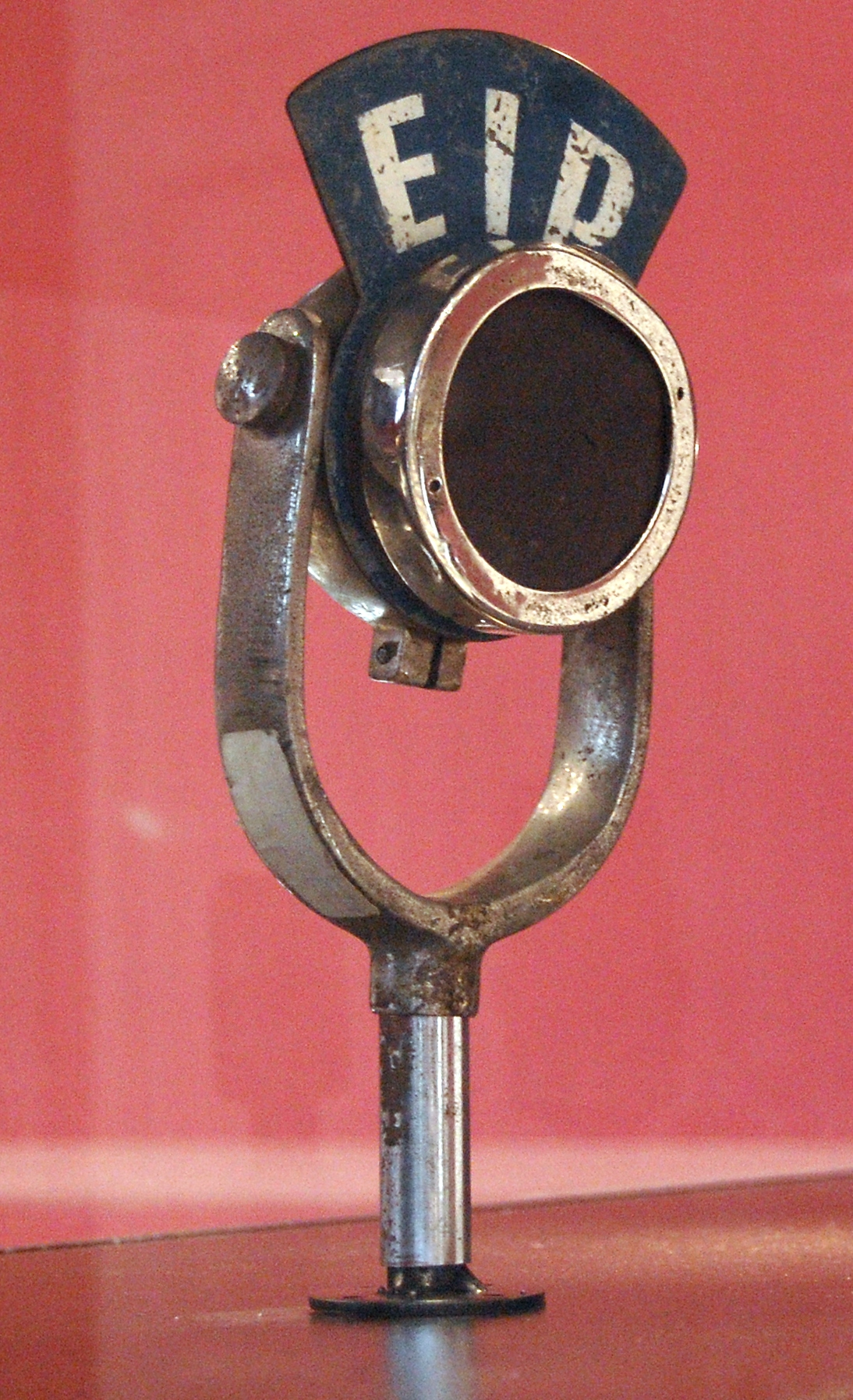 Microphone used by the National Radio Foundation of Greece.